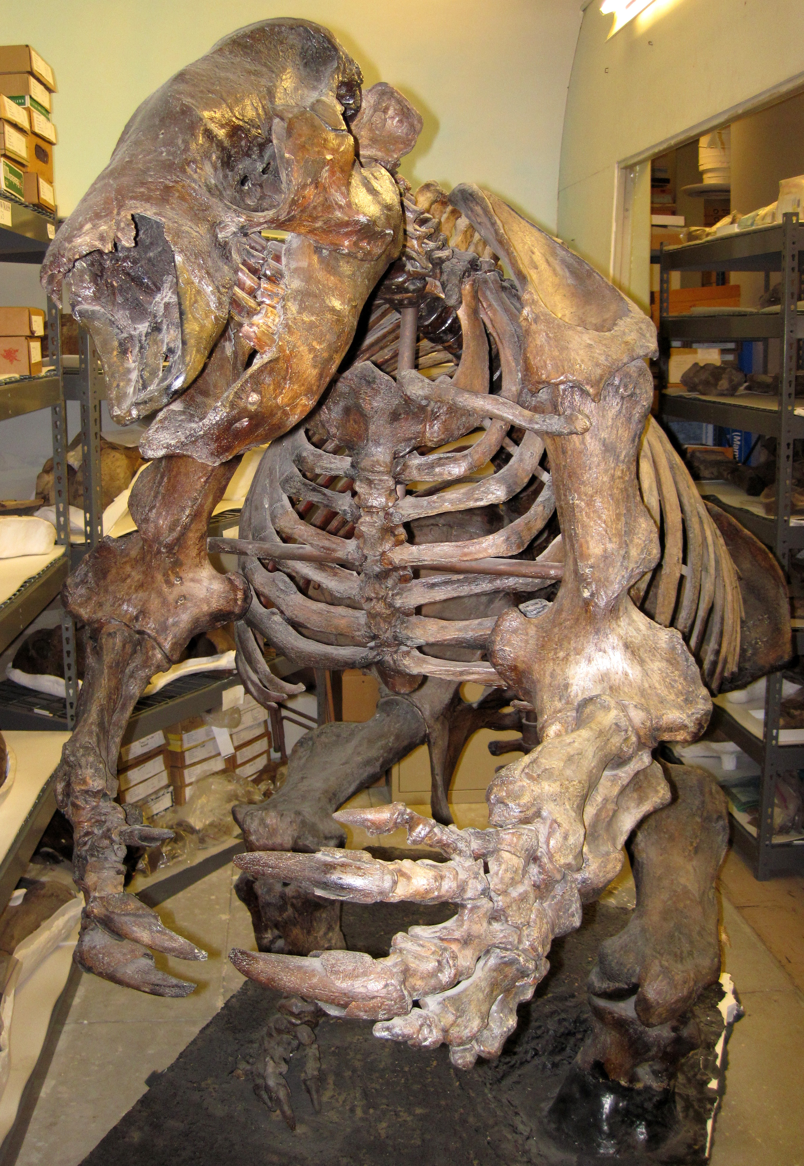 Paramylodon harlani Owen, 1840 ground sloth skeleton from the Pleistocene of California, USA (Denver Museum of Nature & Science, Denver, Colorado, USA). Living sloths are medium-sized, very slow-moving, arboreal mammals of South America & Mesoamerica. During the middle & late Cenozoic, several large, ground-dwelling sloth species existed in the Americas. Shown here is one of the giant ground sloths known from the late Pleistocene of North America. This is Harlan’s ground sloth, Paramylodon harlani (a.k.a. Glossotherium (Paramylodon) harlani), whose body length reached two meters. Classification: Animalia, Chordata, Vertebrata, Mammalia, Xenarthra, Phyllophaga, Mylodonta, Mylodontoidea, Mylodontidae Stratigraphy: La Brea Asphalt, Upper Pleistocene Locality: Rancho La Brea tar pits, Los Angeles, southern California, USA